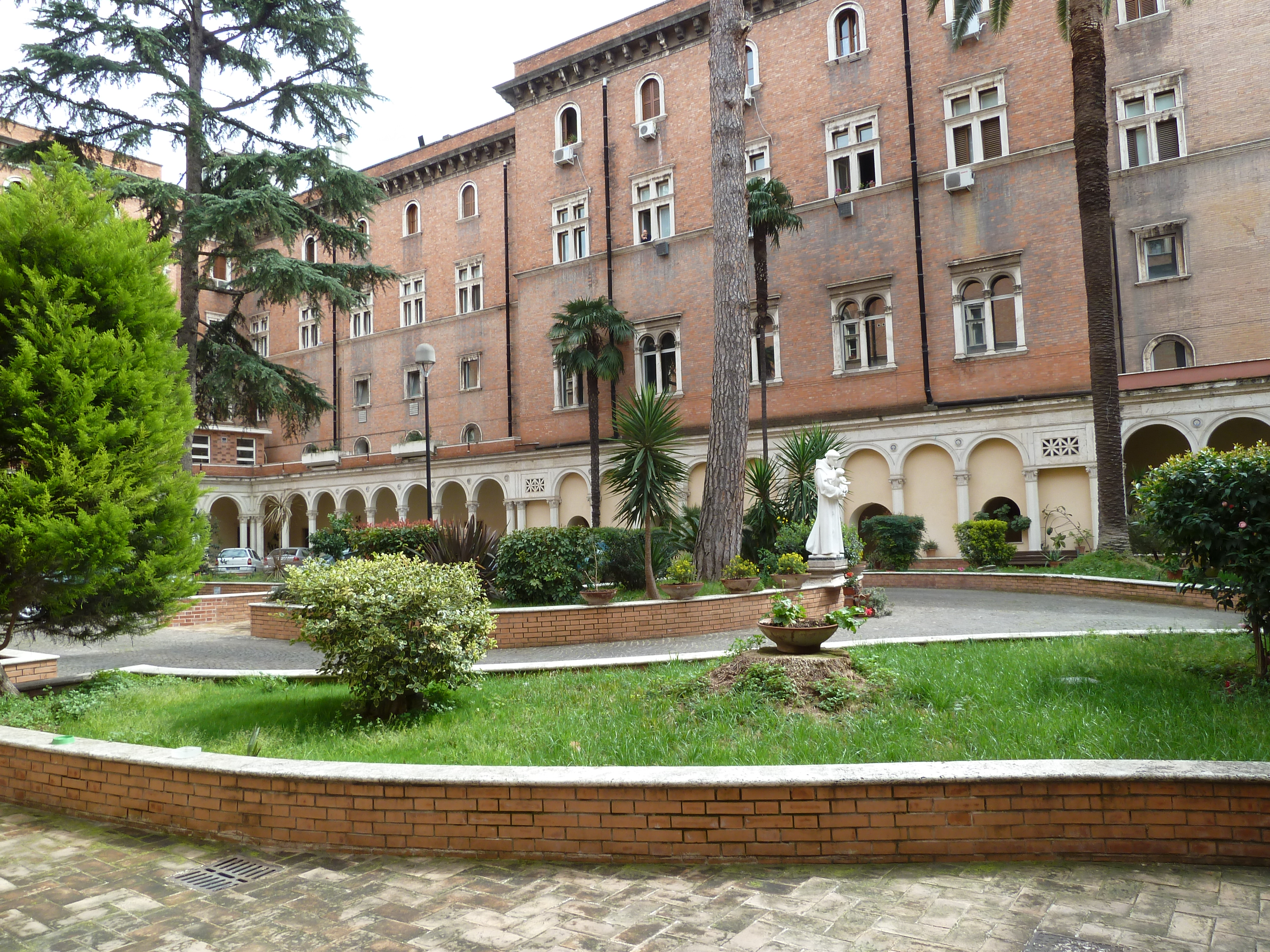 Antonianum.